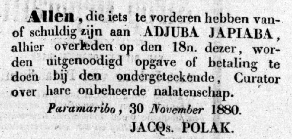 Notification of death of Ajuba Gyapiaba to any creditors.